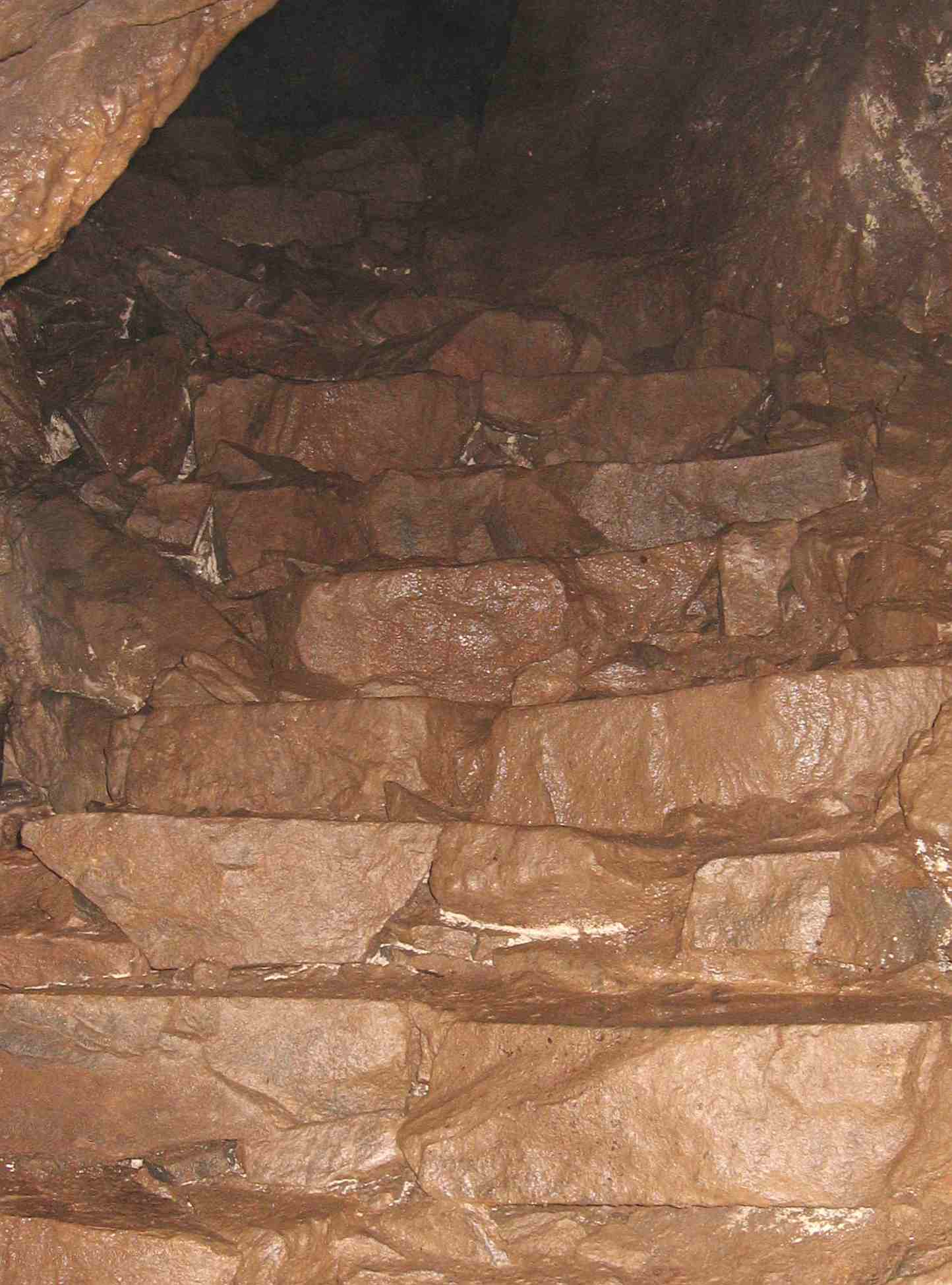 Grotte di Pugnetto (Mezzenile, TO, Italy): some stone steps in the Madonnina branch of Borna Grande